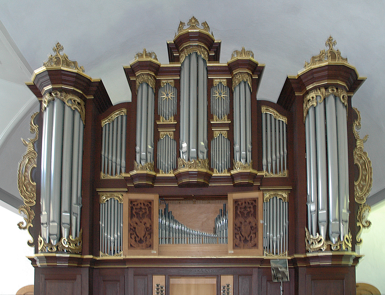 St. Lucas-Church in Scheeßel, organ